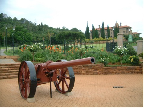 View from right front of German 10.5 cm/40 SK L/40 naval gun from cruiser SMS Königsberg mounted on field carriage, as used in the East Africa campaign in World War I. Outside the Union Buildings, Pretoria, South Africa. See File:Königsberg gun Union Buildings Pretoria breech view.jpg for breech end view of same gun.